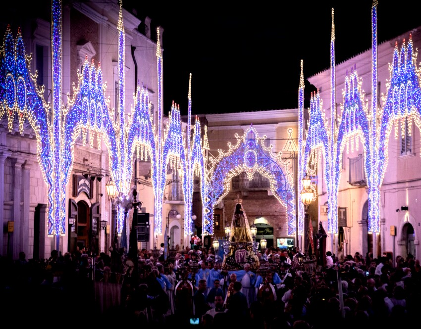 Piazza Duomo durante il rientro della professione.